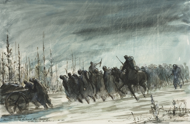 A column of prisoners of war, escorted by armed guards, two mounted, marching through snow in Germany. At the right, men are pushing a laden hand cart.